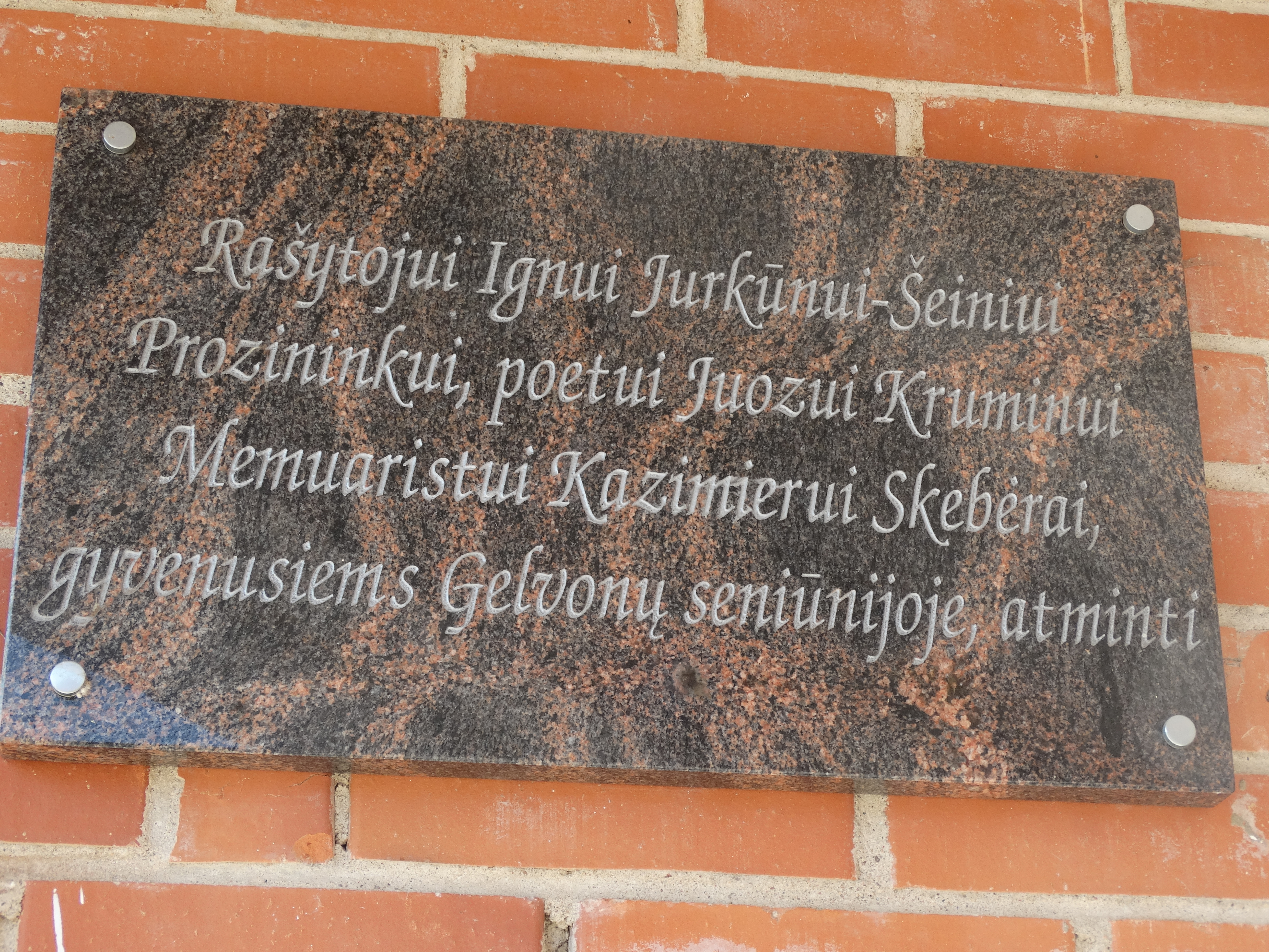 Memorial plaque, Gelvonai, Širvintos District, Lithuania